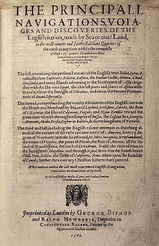 Title page of The Principall Navigations, Voiages, and Discoveries of the English Nation : Made by Sea or Over Land to the Most Remote and Farthest Distant Quarters of the Earth at Any Time within the Compasse of These 1500 Years : Divided into Three Several Parts According to the Positions of the Regions Whereunto They Were Directed; the First Containing the Personall Travels of the English unto Indæa, Syria, Arabia... the Second, Comprehending the Worthy Discoveries of the English Towards the North and Northeast by Sea, as of Lapland... the Third and Last, Including the English Valiant Attempts in Searching Almost all the Corners of the Vaste and New World of America... Whereunto is Added the Last Most Renowned English Navigation Round About the Whole Globe of the Earth (London: Imprinted by George Bishop and Ralph Newberie, deputies to Christopher Barker, printer to the Queen’s Most Excellent Majestie).